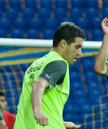 The Uruguayan football midfielder/defender Andrés Scotti Ponce de León.